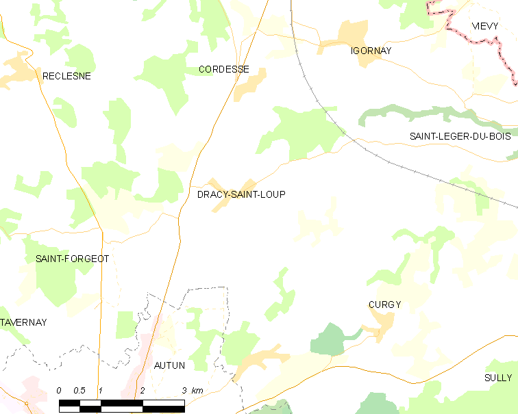 Map of French municipality